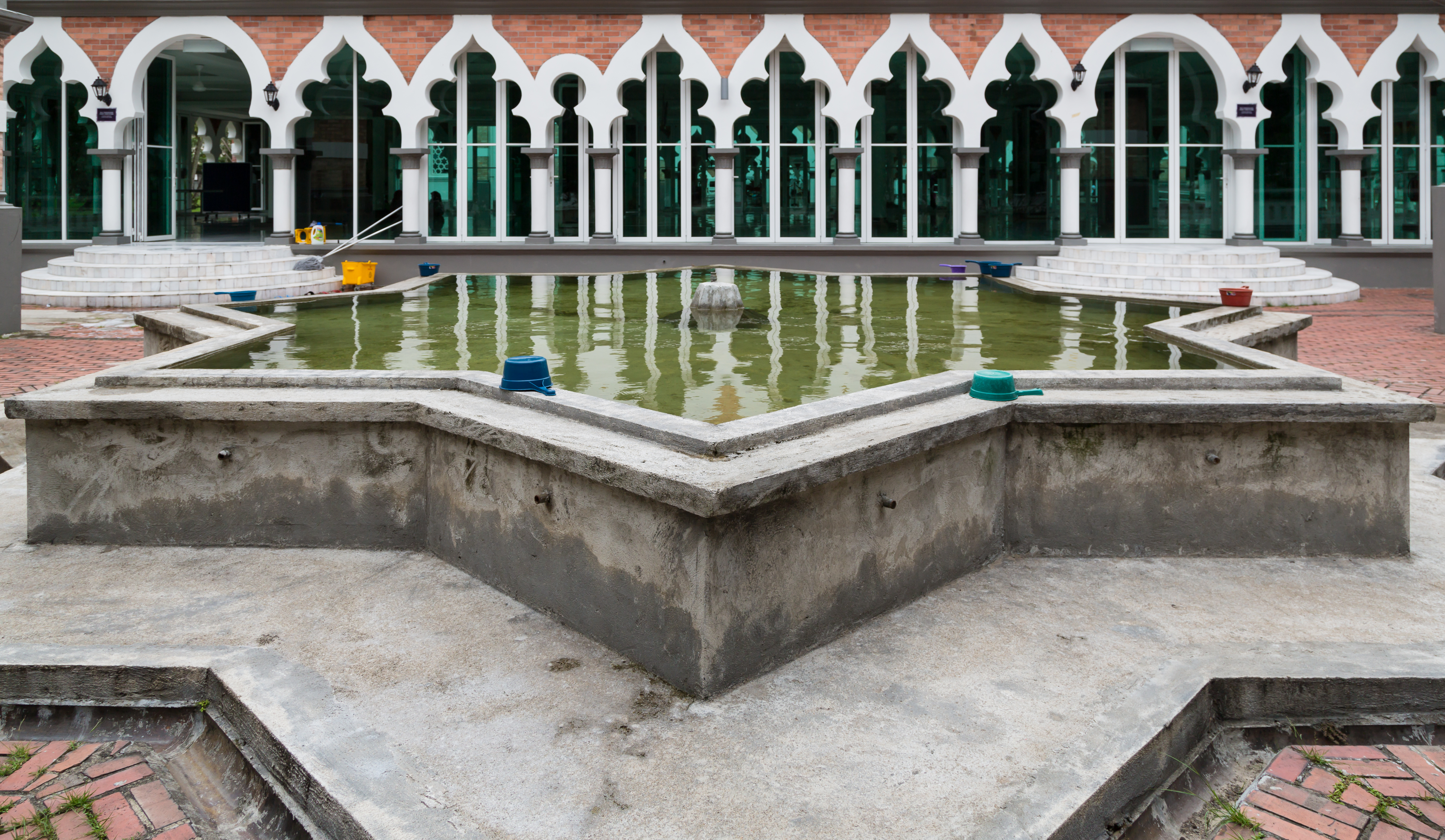 Kuala Lumpur, Malaysia: Ablution basin (for women) in Masjid Jamek Kuala Lumpur